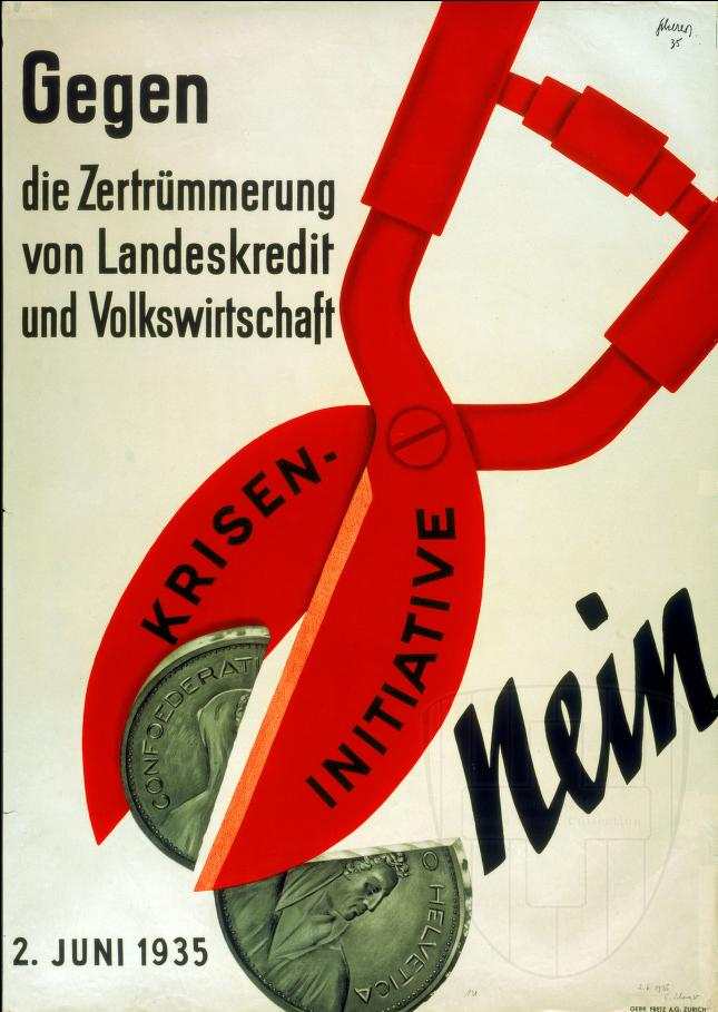 Swiss advertisement for votation regarding economical crisis of 1935